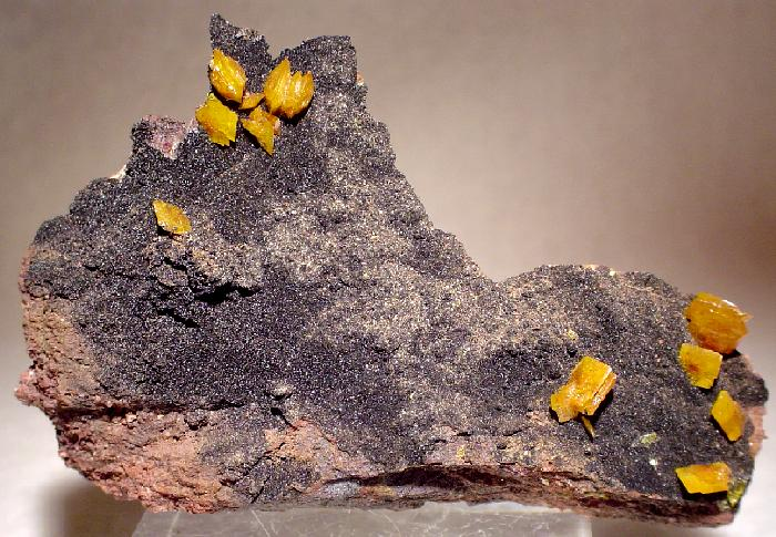 Wulfenite, Mottramite Locality: 79 Mine (79th Mine; Seventy-Nine Mine; Seventy-Nine property; McHur prospect), Chilito, Hayden area, Banner District, Dripping Spring Mts, Gila County, Arizona, USA (Locality at ) An showy and excellent specimen of sharp, lustrous and gemmy butterscotch-colored wulfenite crystals to 7 mm on a nicely contrasting mottramite-coated matrix from the famous 79 Mine in Arizona. The label states that this piece was collected by ace Arizona collectors and mine owners, George Godas and John Callahan, in September, 2003. VERY RARE MATERIAL FOR THE LOCALITY! 8.0 x 5.2 x 1.7 cm